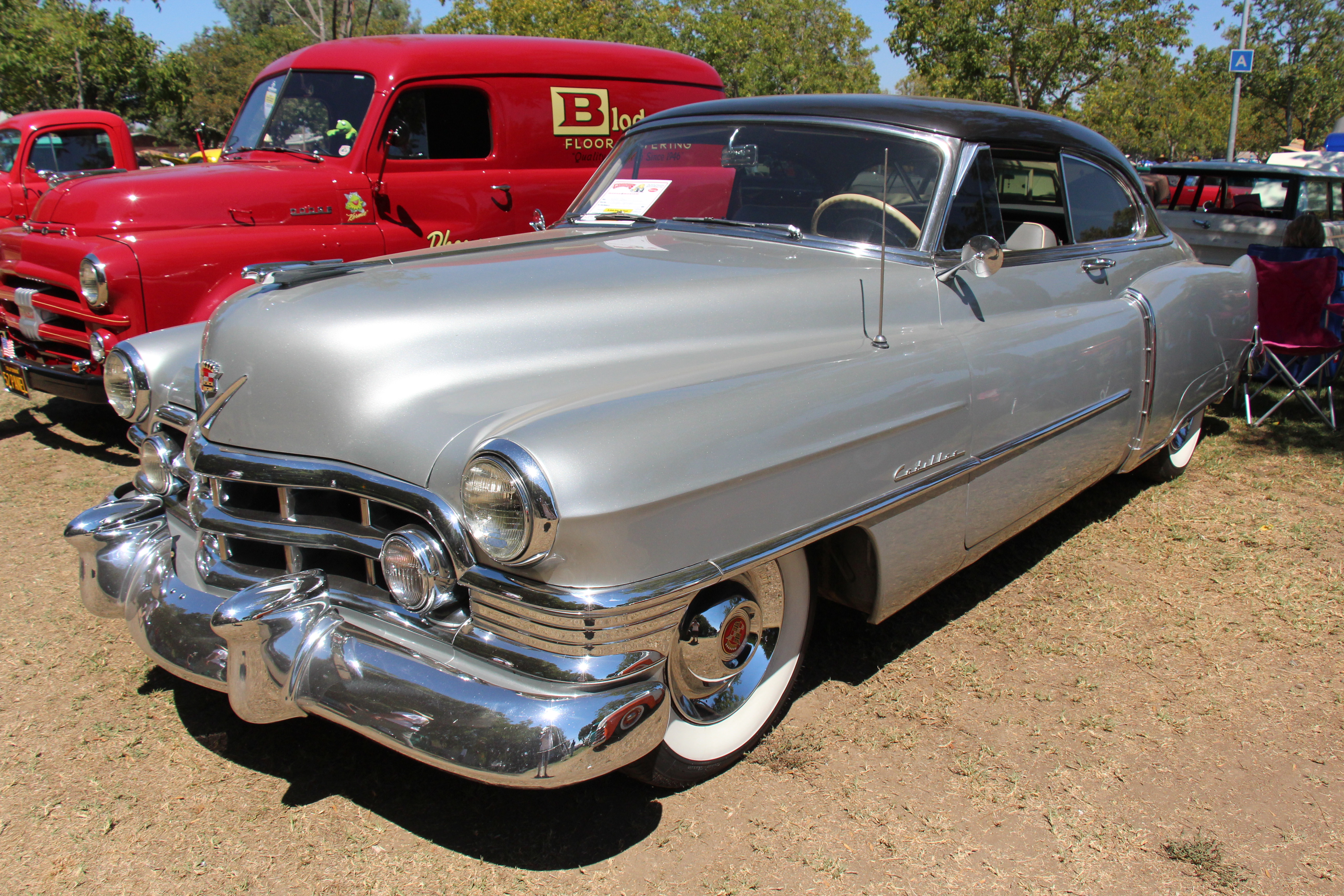 The new look 1948 Cadillacs got pontoon front fenders, a pointed nose, lower grille, curved windshields and tailfins. The unique to Cadillac gas cap hidden behind the tail light was introduced. 1949 saw a new wider grille and new V8, smaller but more powerful 331 cu in OHV V8. For 1950, the Cadillac got a revamped grille incorporating large foglights, then small auxiliary grilles beneath the headlamps were added for 1951, a winged badge in that spot for 1952, one-piece rear windows and pointed front bumper guards for 1953. Fastback roof styles were gone for 1950, all of its 1950 coupes had hardtop rooflines; the new Coupe de Ville was introduced. Models available in 1950; Series 60 Special; Luxury 130in wheelbase V8, only 4 door sedan. Series 61; Entry level 122 inch wheelbase V8, 2 door coupe and 4 door sedan. Series 62; Entry level 126 inch wheelbase V8, 2 door coupe, hardtop and convertible and 4 door sedan Series 75; Luxury 147 inch wheelbase V8, sedan and limousine. Engine; All models got the 160hp 331 cu in V8.